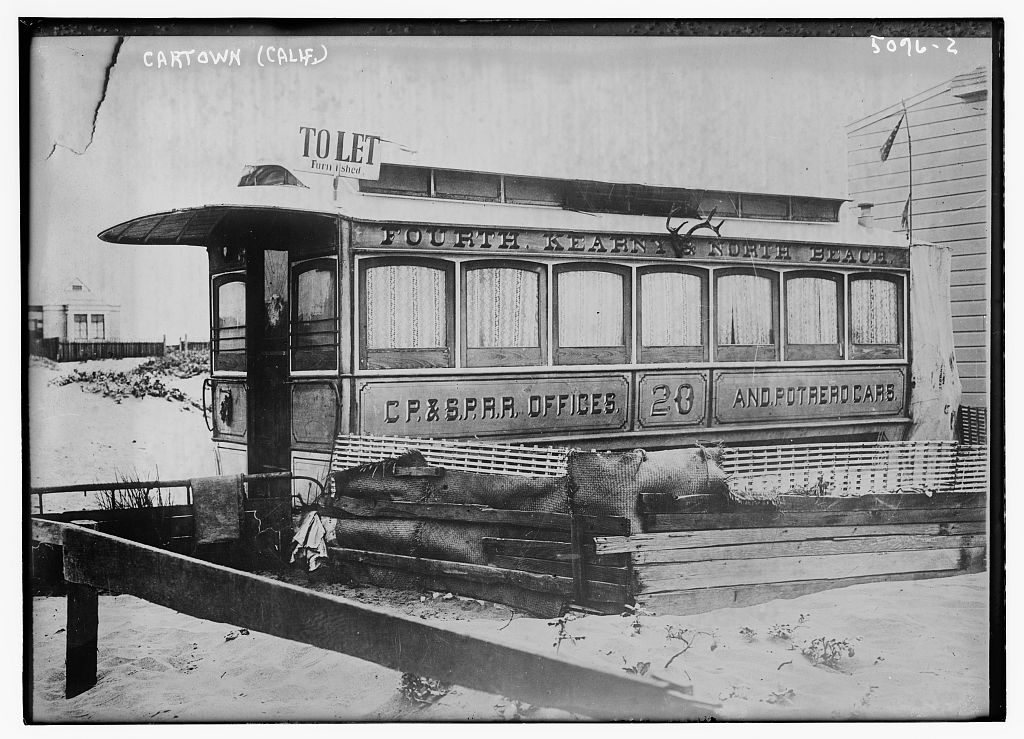 Carville, San Francisco rairlroad car in 1920